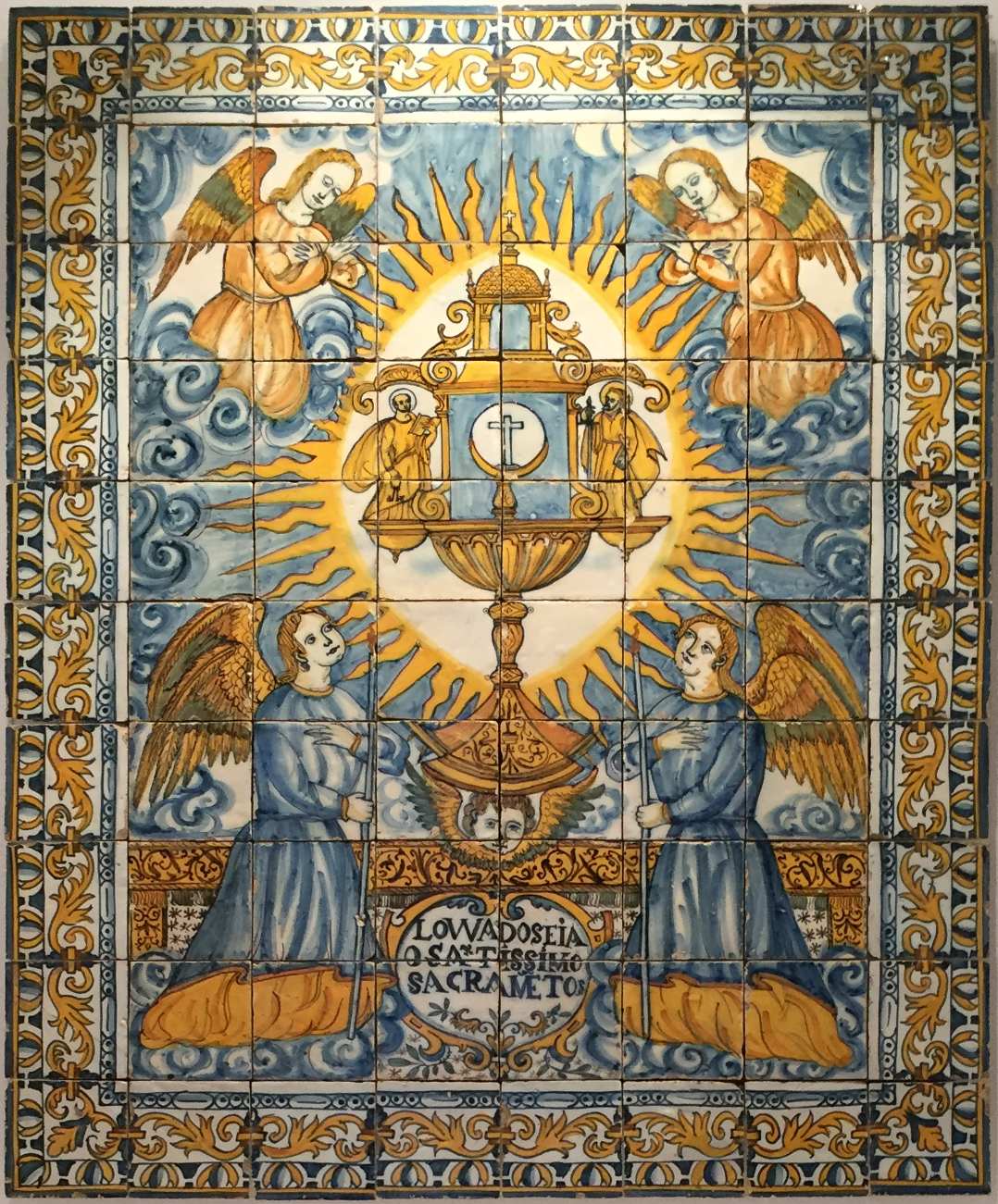 Tile panel depicting an allegory of the Eucharist, made in Lisbon around 1660 for the Convent of Saint Anne in the same city. Currently in the National Tile Museum (Museu Nacional do Azulejo), in Lisbon, Portugal.